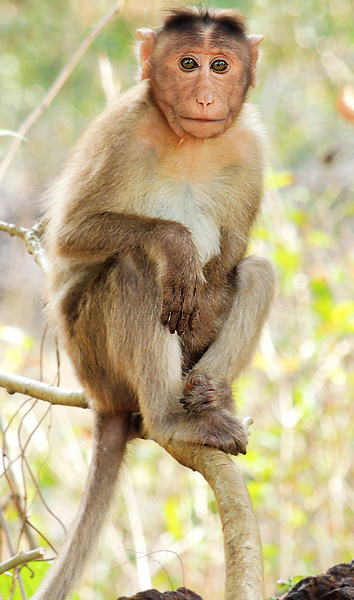 Bonnet macaque (Macaca radiata) in Mangaon, Maharashtra, India